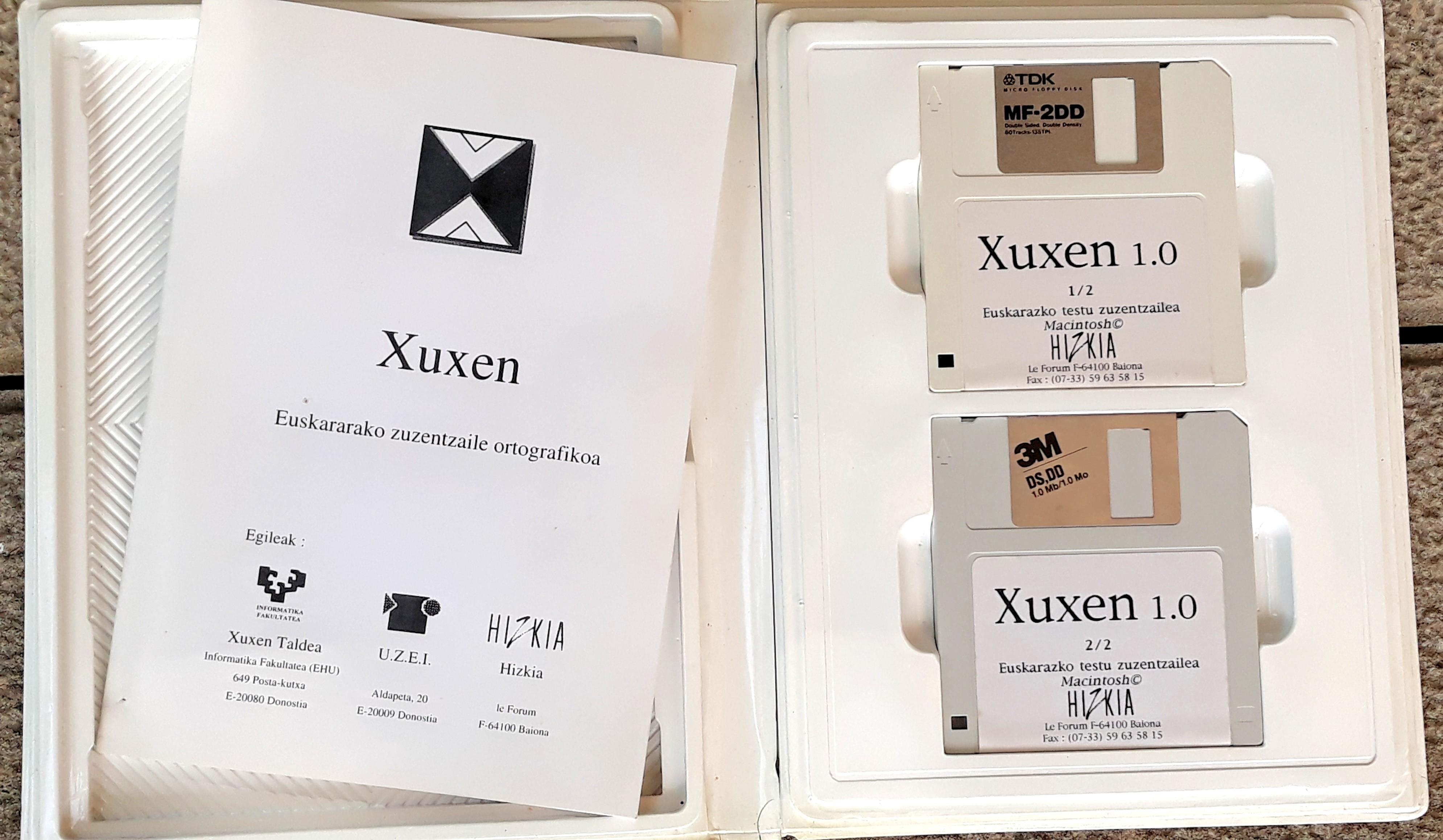 Xuxen: first spelling corrector for Basque. First edition 1994. Diskettes